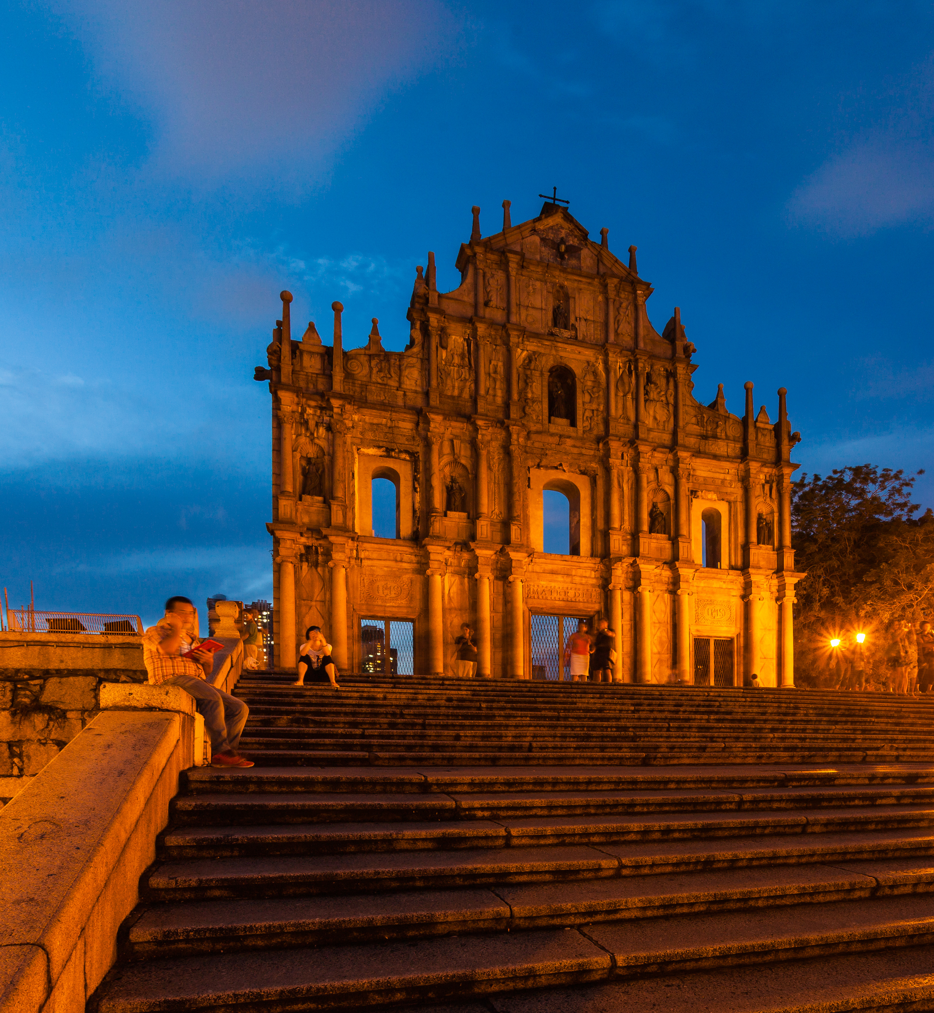 Remains of the Cathedral of Saint Paul, Macau